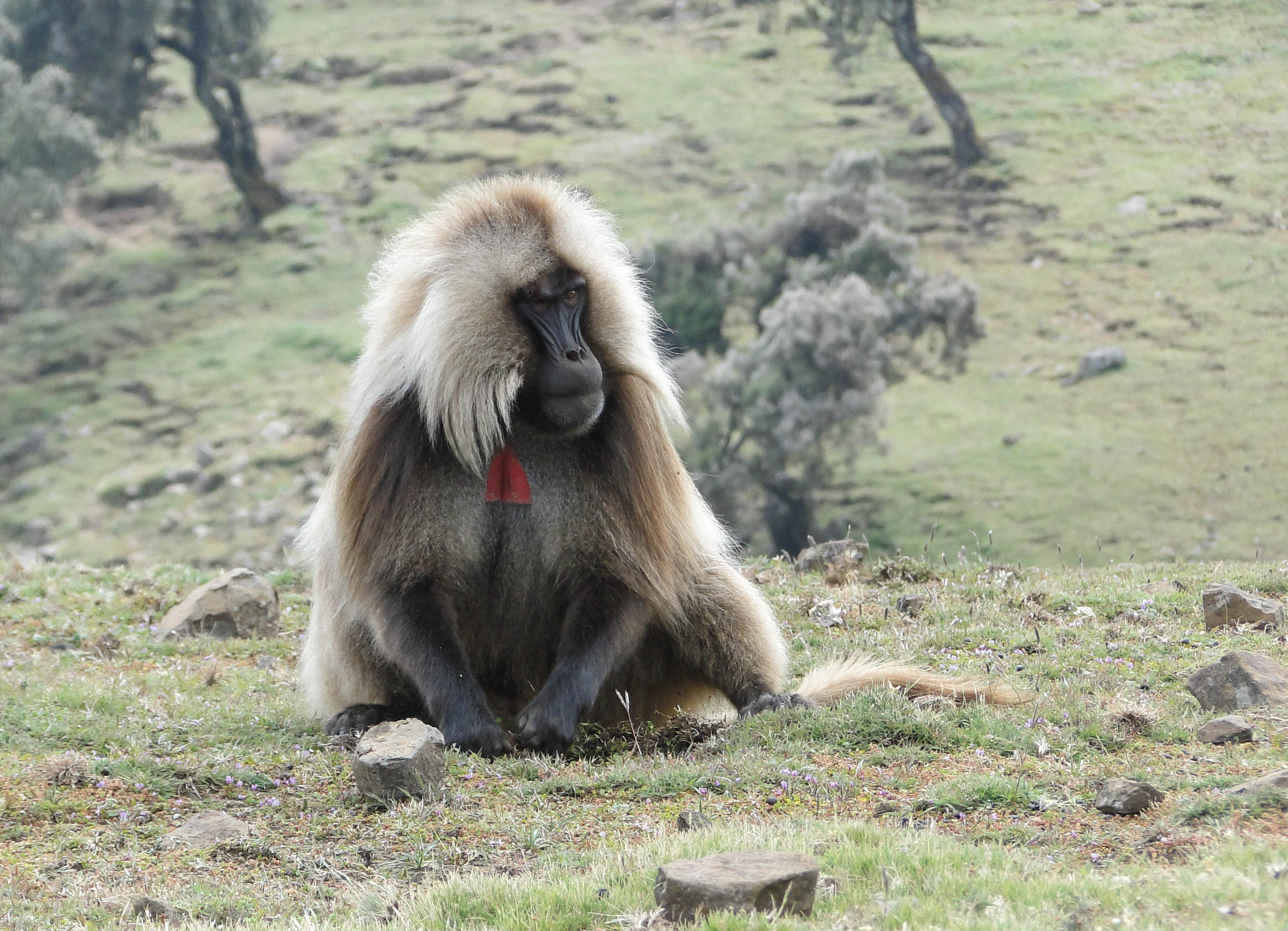 A male gelada (Theropithecus gelada) in the Simien Mountains National Park, Ethiopia